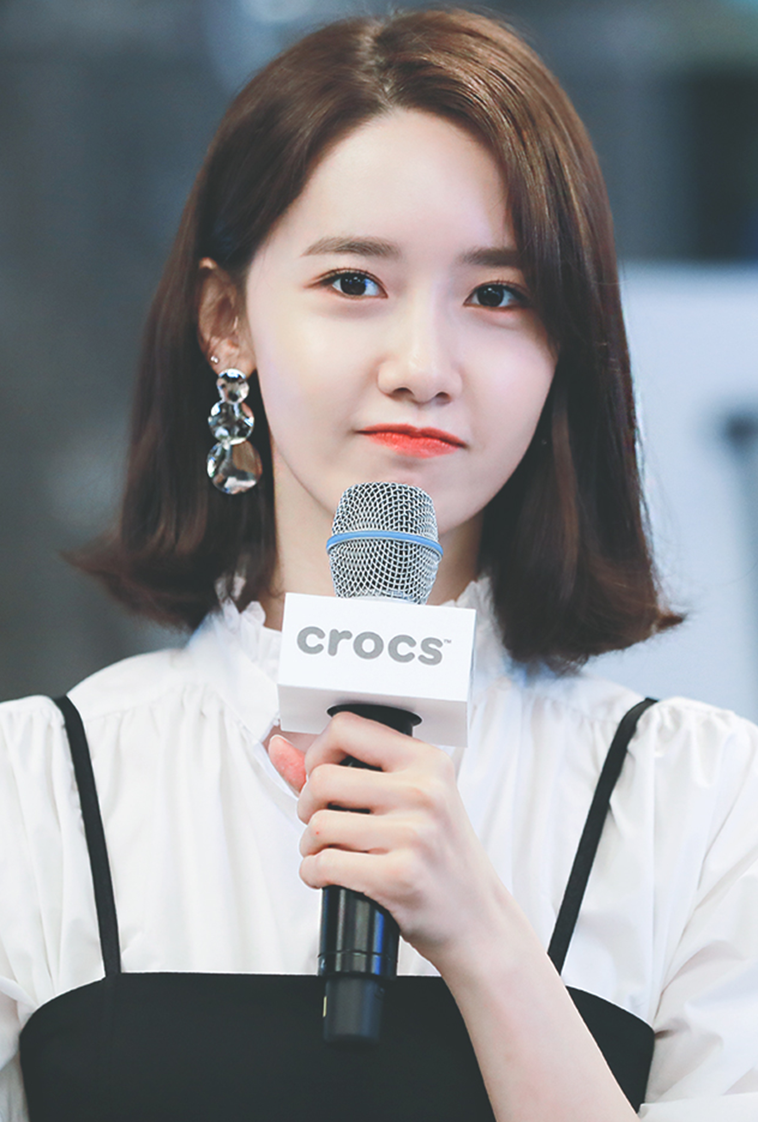 YoonA during the Crocs LiteRide launch event on April 3, 2018.